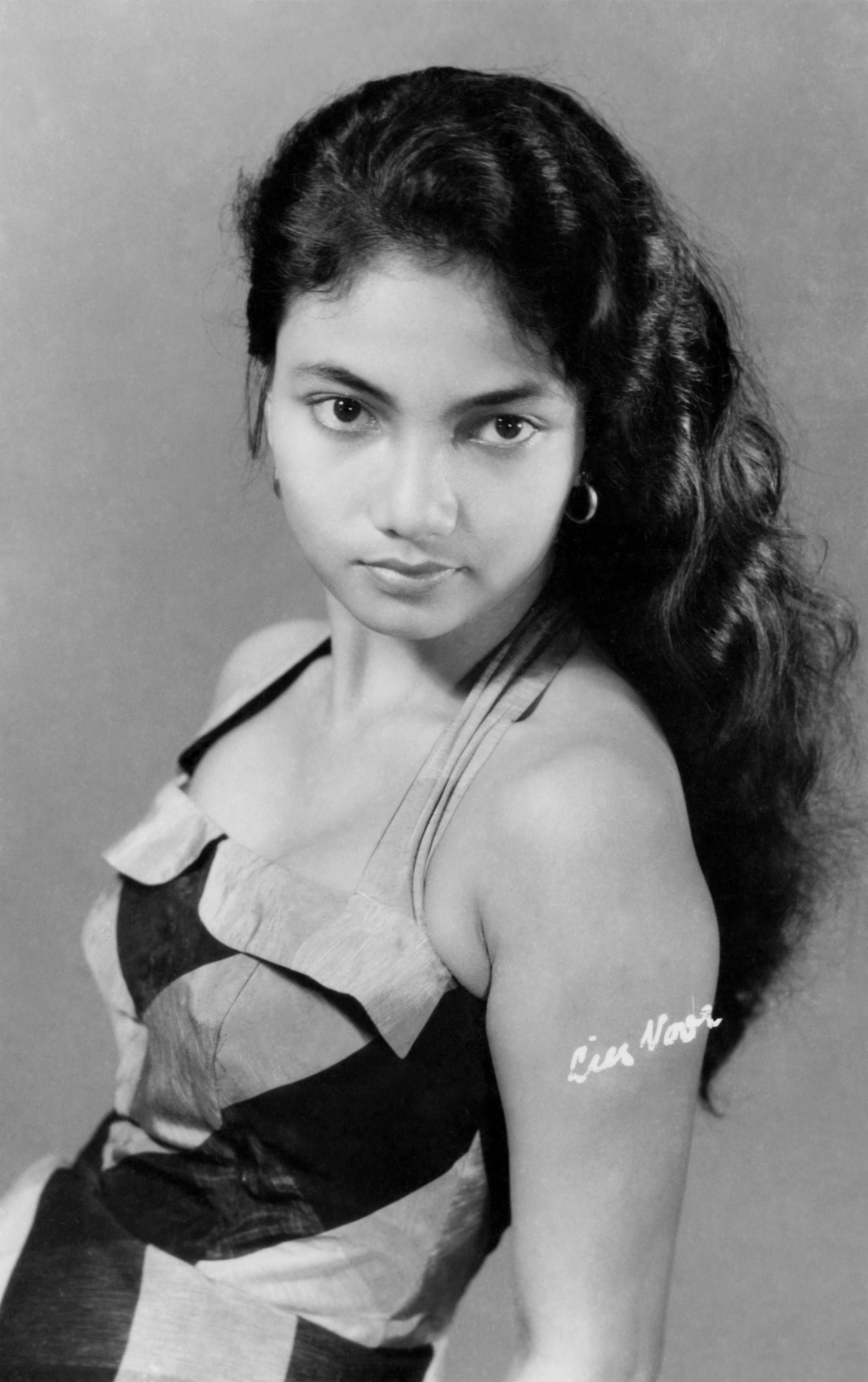 Indonesian actress Lies Noor (c. 1956) in a photograph from Djakartawood. The original is postcard sized. Restored from File:Lies Noor (c. 1956), Djakartawood - before restoration.jpg by Crisco 1492.